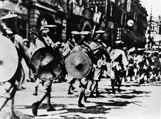 The National Revolutionary Army enters Wuhan in 1926 - NRA troops capturing British concessions in Hankou during the Northern Expedition. From zh and en wikipedia